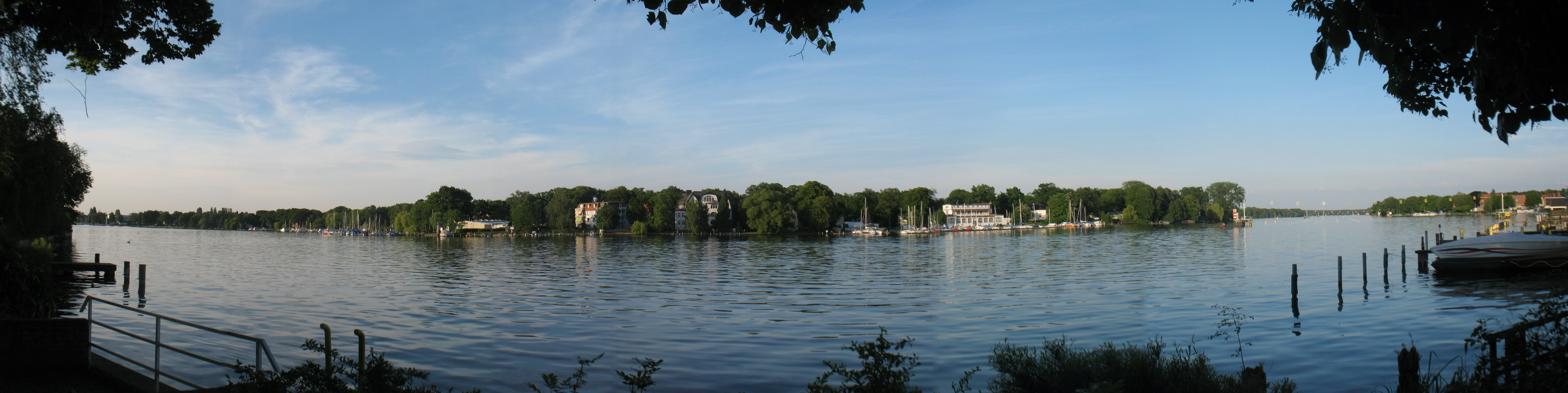 View of Wendenschloss from the Grünau-side of the Dahme